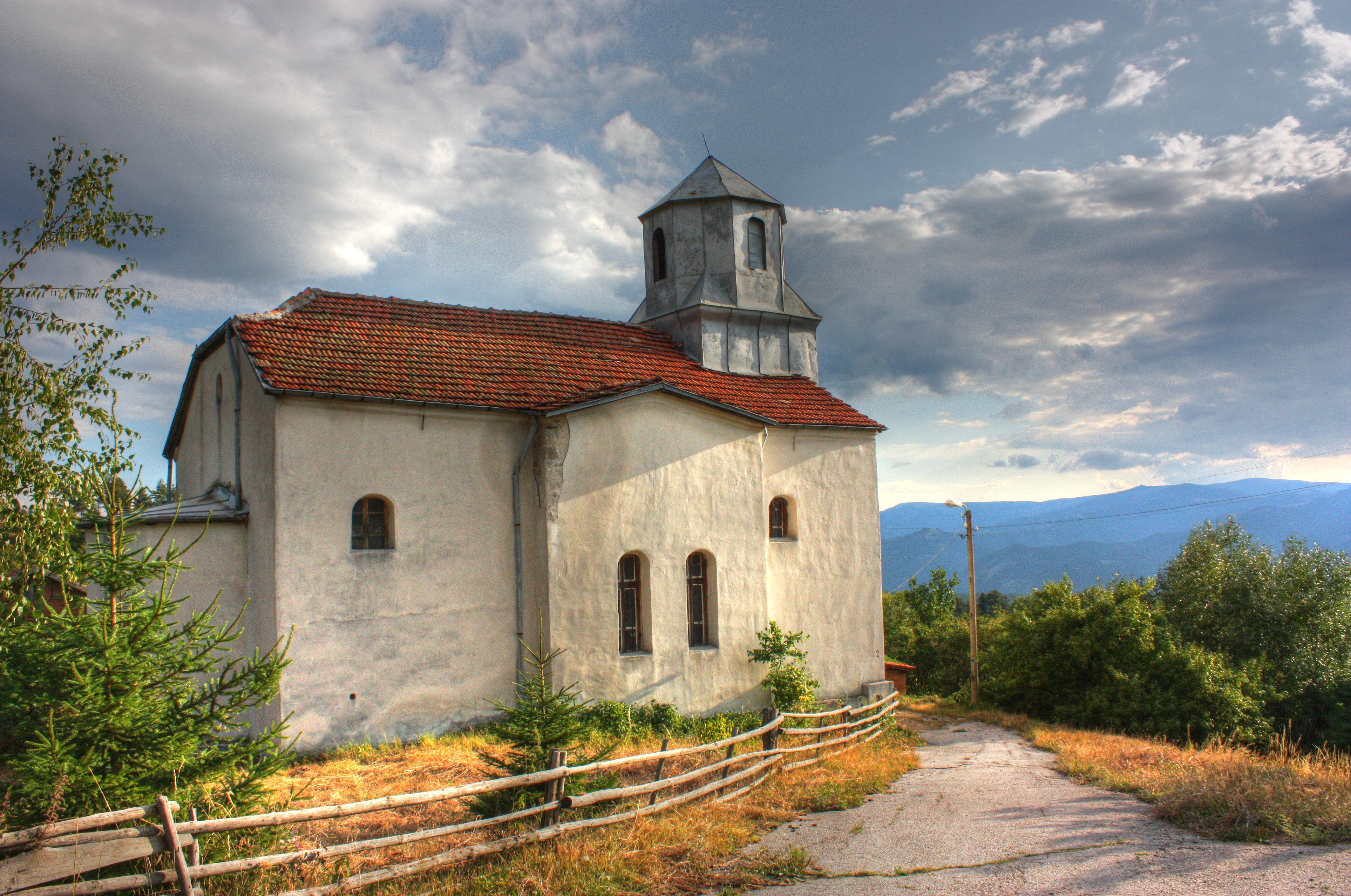 "St. Demetrius" church at the Bulgarian village Senokos